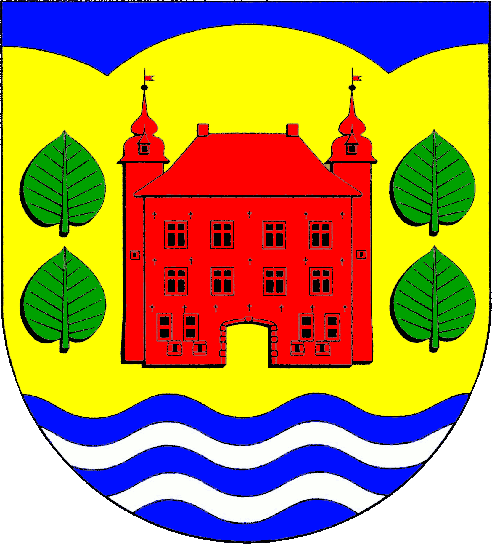 Coat of arms of the municipality Seedorf in Schleswig-Holstein, Germany.